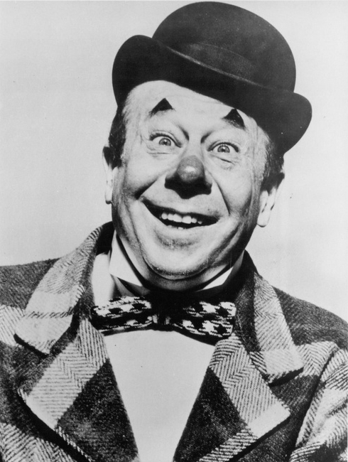 Publicity photo of American entertainer, Bert Lahr promoting his role in the stage production, Burlesque, 1946.